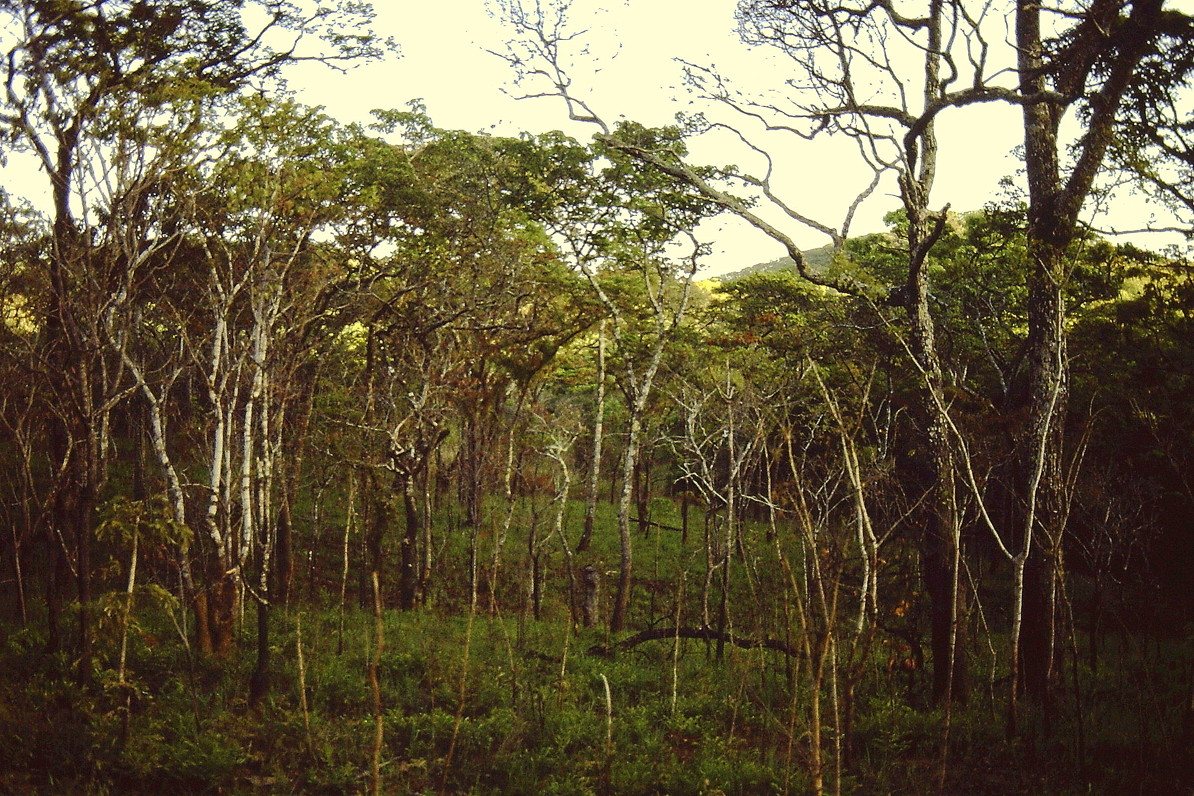 Miombo vegetation in the Niassa plateau of Northern Mozambique